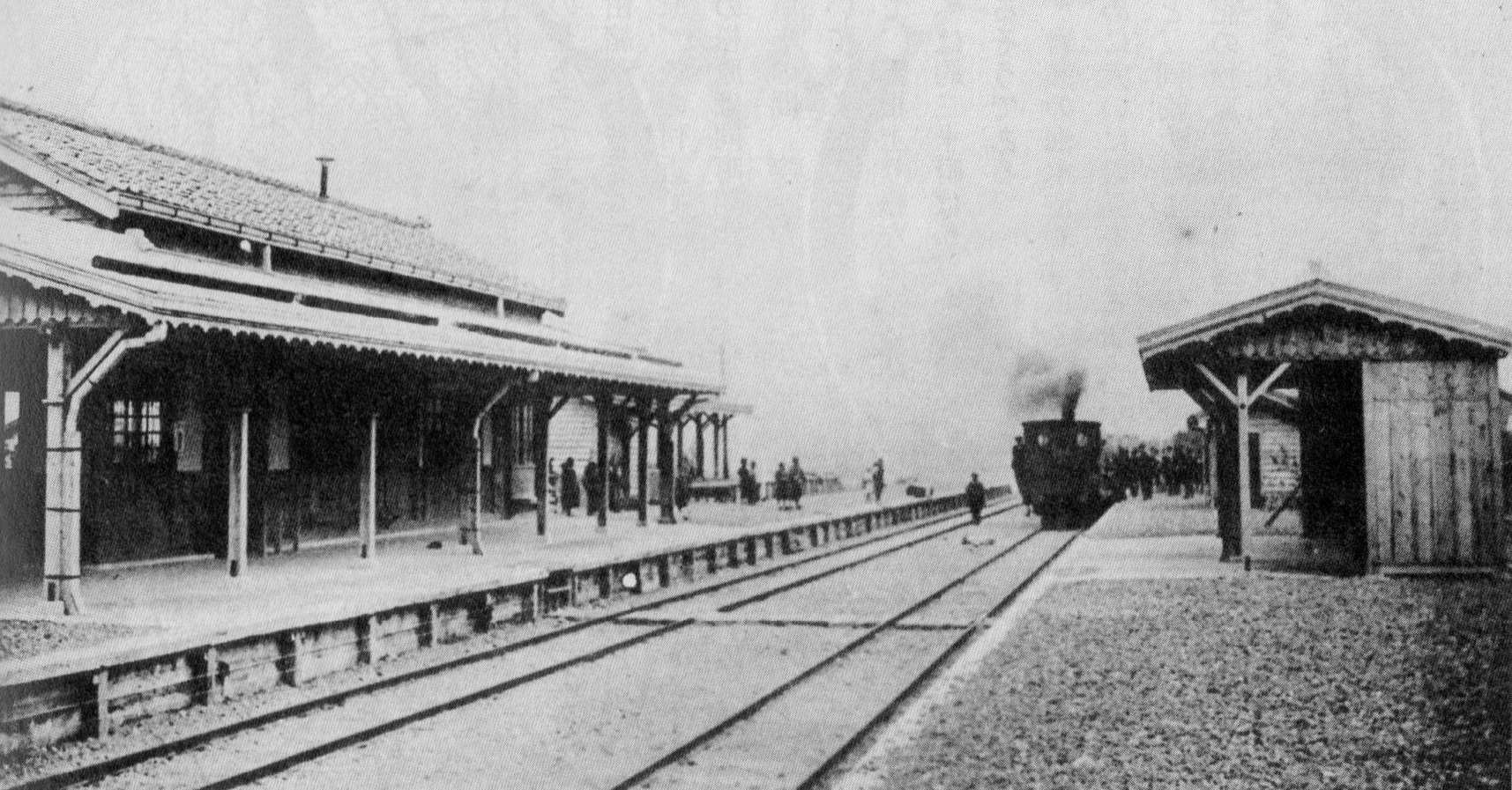 Mizuhashi Station in Toyama Prefecture, Japan